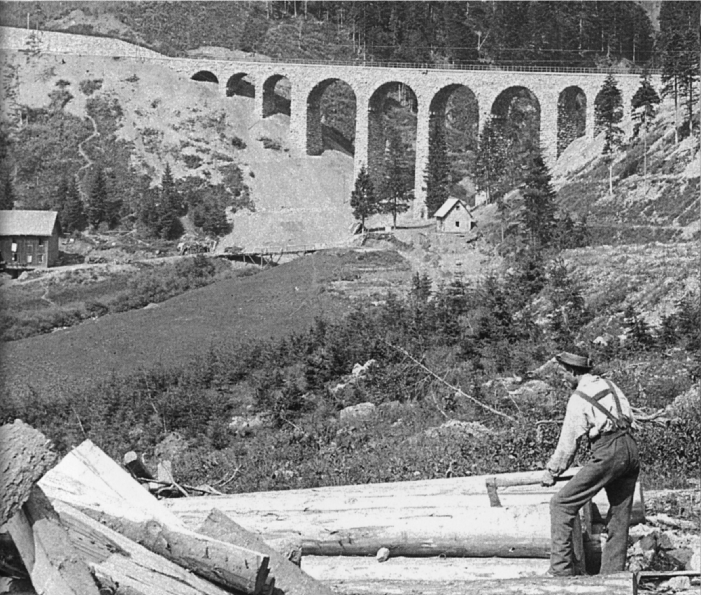 Petschar, Friedlmeier, Steiermark in alten Fotografien, Ueberreuther Verlag Wien. Scanprojekt Community Projektbudget 2012 This scan or this PDF-file was created within the GLAM-project Bookscanning, supported by Wikimedia Germany and Wikimedia Austria as a part of the community-project to capture books, documents and pictures which are not eligible to copyright or for which the copyright has expired. This document describes or depicts an object which is located in Austria today. Texts are written German language. Send requests for uncompressed scans to Hubertl. This work is in the public domain in its country of origin and other countries and areas where the copyright term is the author's life plus 100 years or fewer. You must also include a United States public domain tag to indicate why this work is in the public domain in the United States. This file has been identified as being free of known restrictions under copyright law, including all related and neighboring rights.